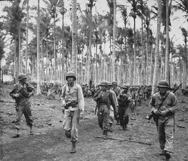 The 112th Cavalry RCT moves through an Arawe coconut plantation.